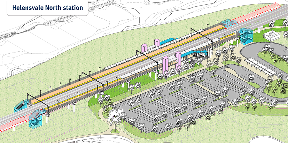 The concept design for the planned Helensvale North railway station.